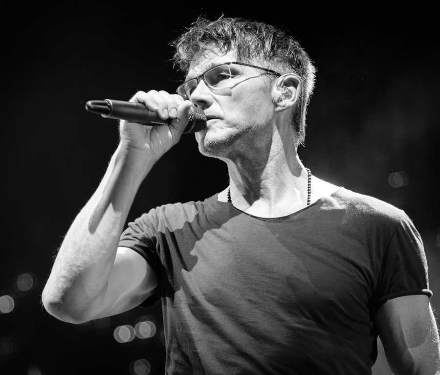 Morten Harket with a-ha at Kirketorget. The concert was part of Kongsberg Jazzfestival and took place on 06. July 2018 in Kongsberg. Lineup:Morten Harket (vocal)Paul Waaktaar-Savoy (guitar and vocal)Magne Furuholmen (keyboard)Unidentified (drums)Unidentified (keyboard)Unidentified (cello)Unidentified (Unknown instrument)Unidentified (Unknown instrument)